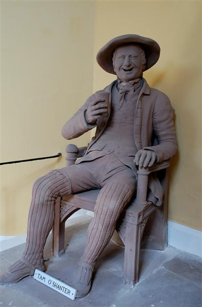 Tam O'Shanter. In this fine sculpture of 1828, by the local stonemason, James Thom, Tam is clearly enjoying his drinking session with his friend, Souter (shoemaker)Johnie. For more information about the statues, see 1213454